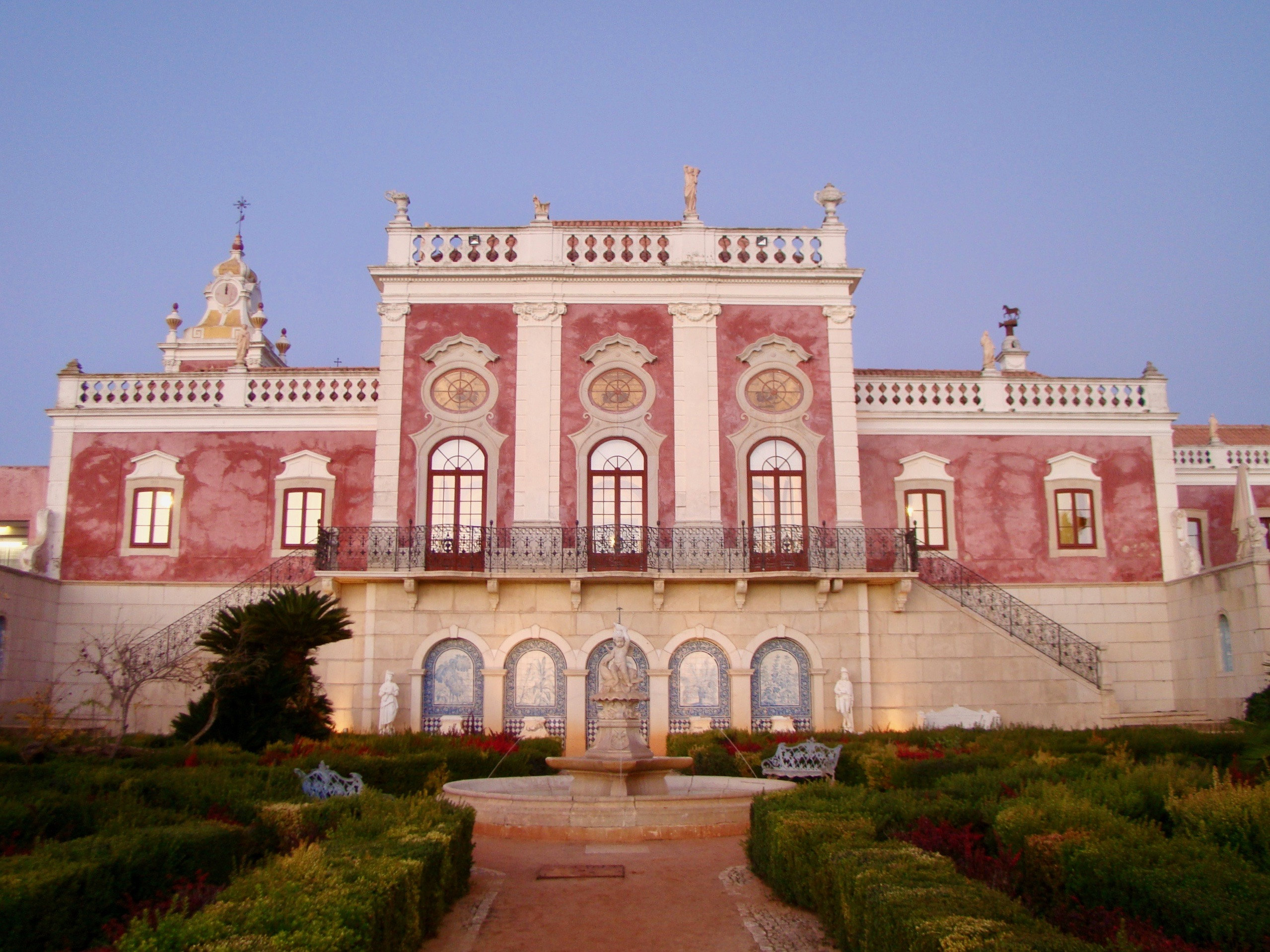 Estoi Palace, in Faro, Algarve, Southern Portugal. Photo taken on 30/11/2018.